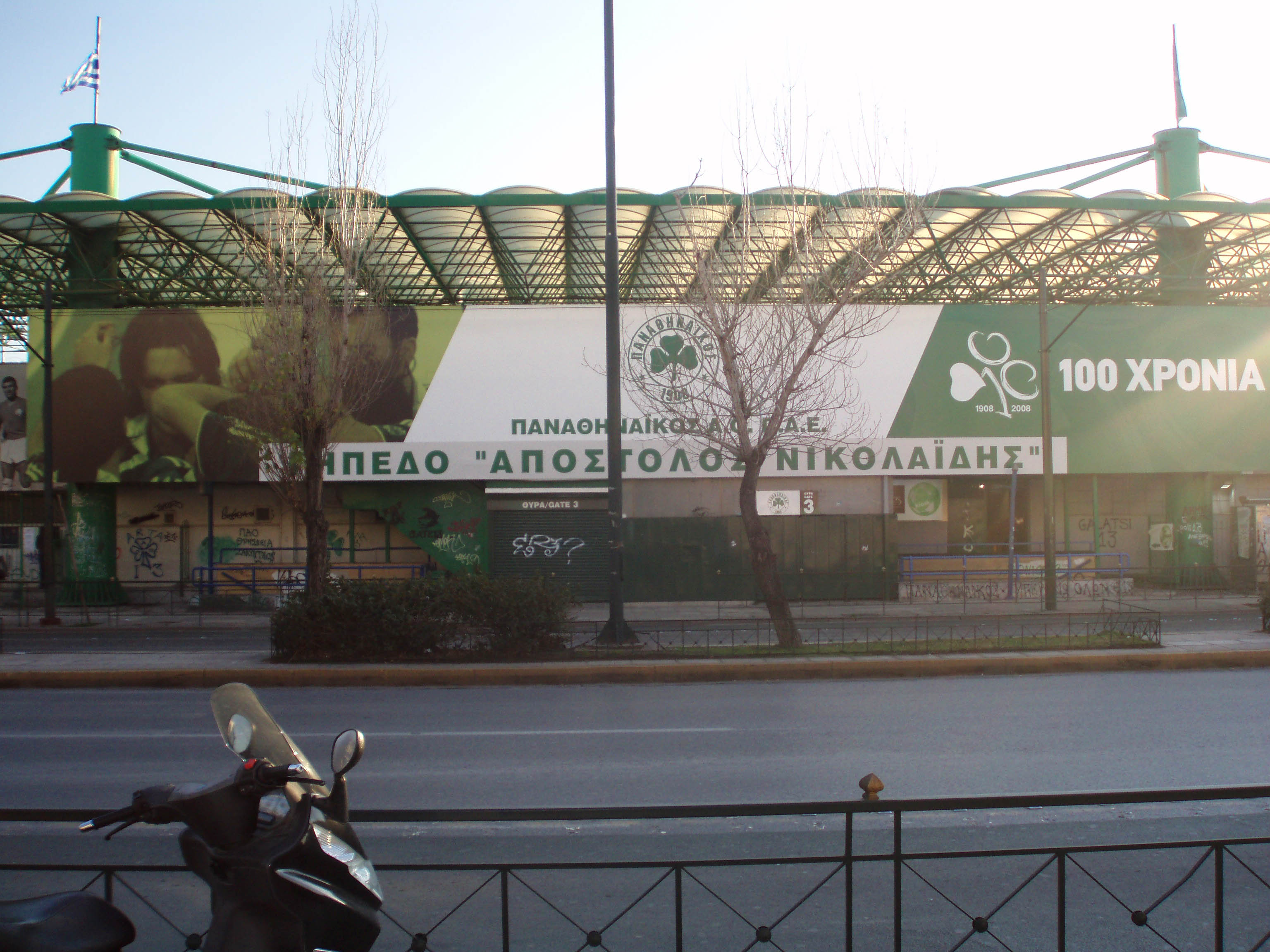 Apostolos Nikolaidis Stadium Panathinaikos F.C. centenary decoration 2008